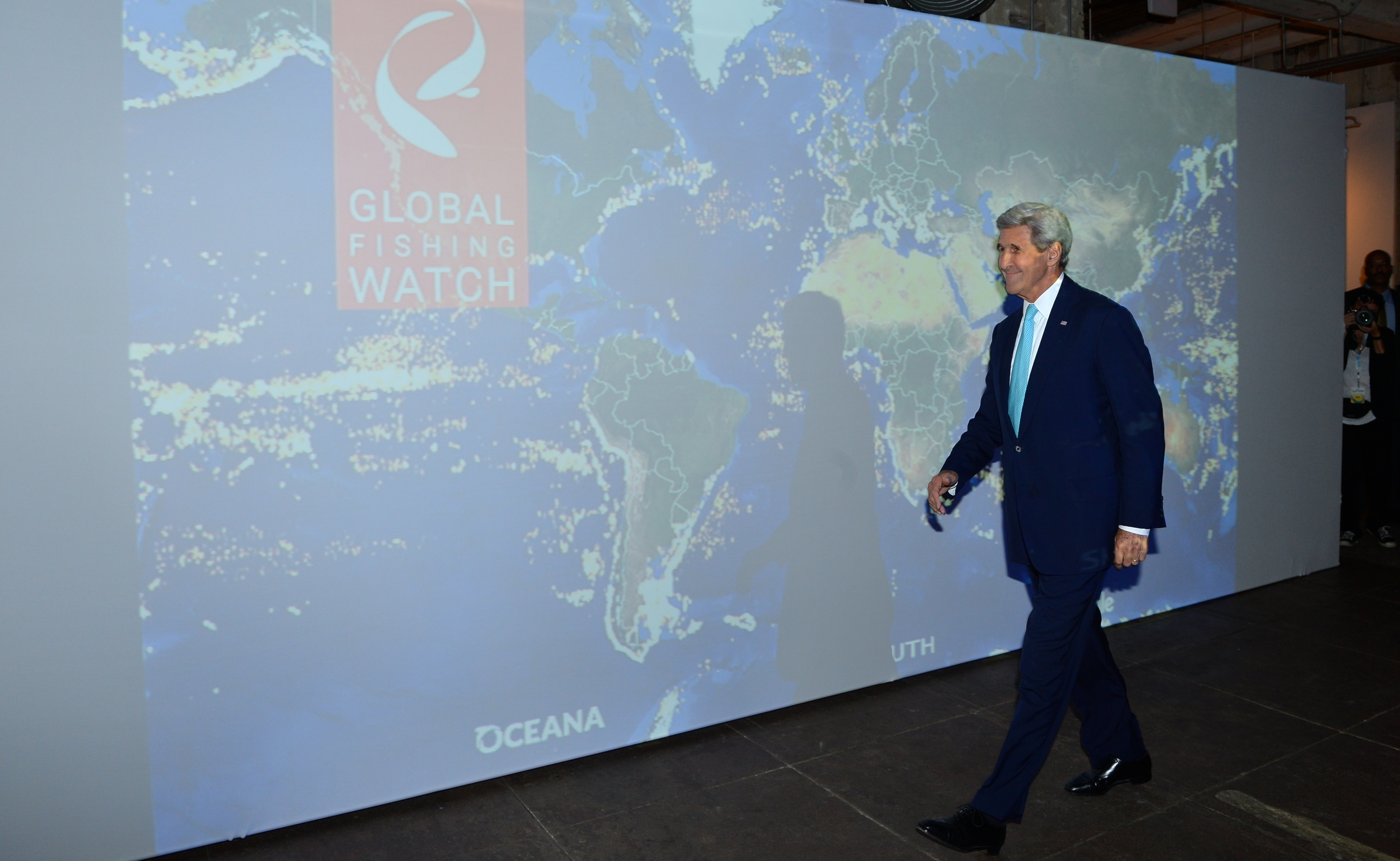 U.S. Secretary of State John Kerry heads to the stage to deliver remarks at the Global Fishing Watch preview reception, hosted by Oceana, Google, and SkyTruth, at the Long View Gallery, in Washington, DC. on September 14, 2016. [State Department Photo/ Public Domain]